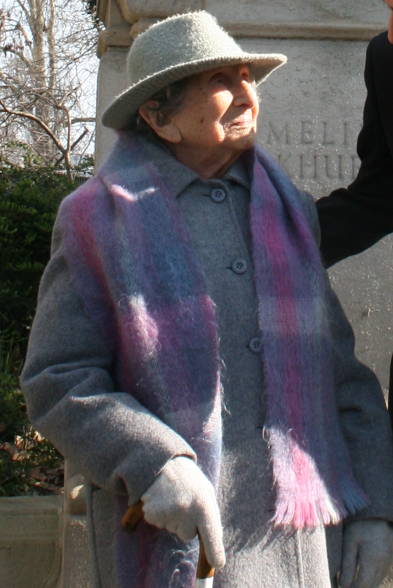 Ed Miliband with 105-year-old former suffragette Hetty Bower at the statue of Emmeline Pankhurst in Westminster on International Women's Day.